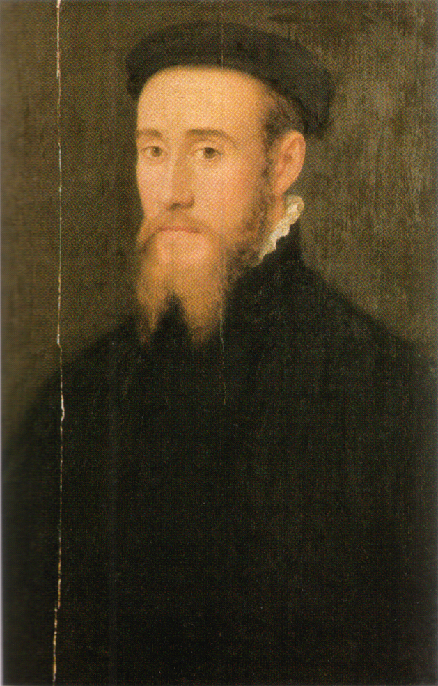 William Maitland of Lethington (c. 1526-1573)